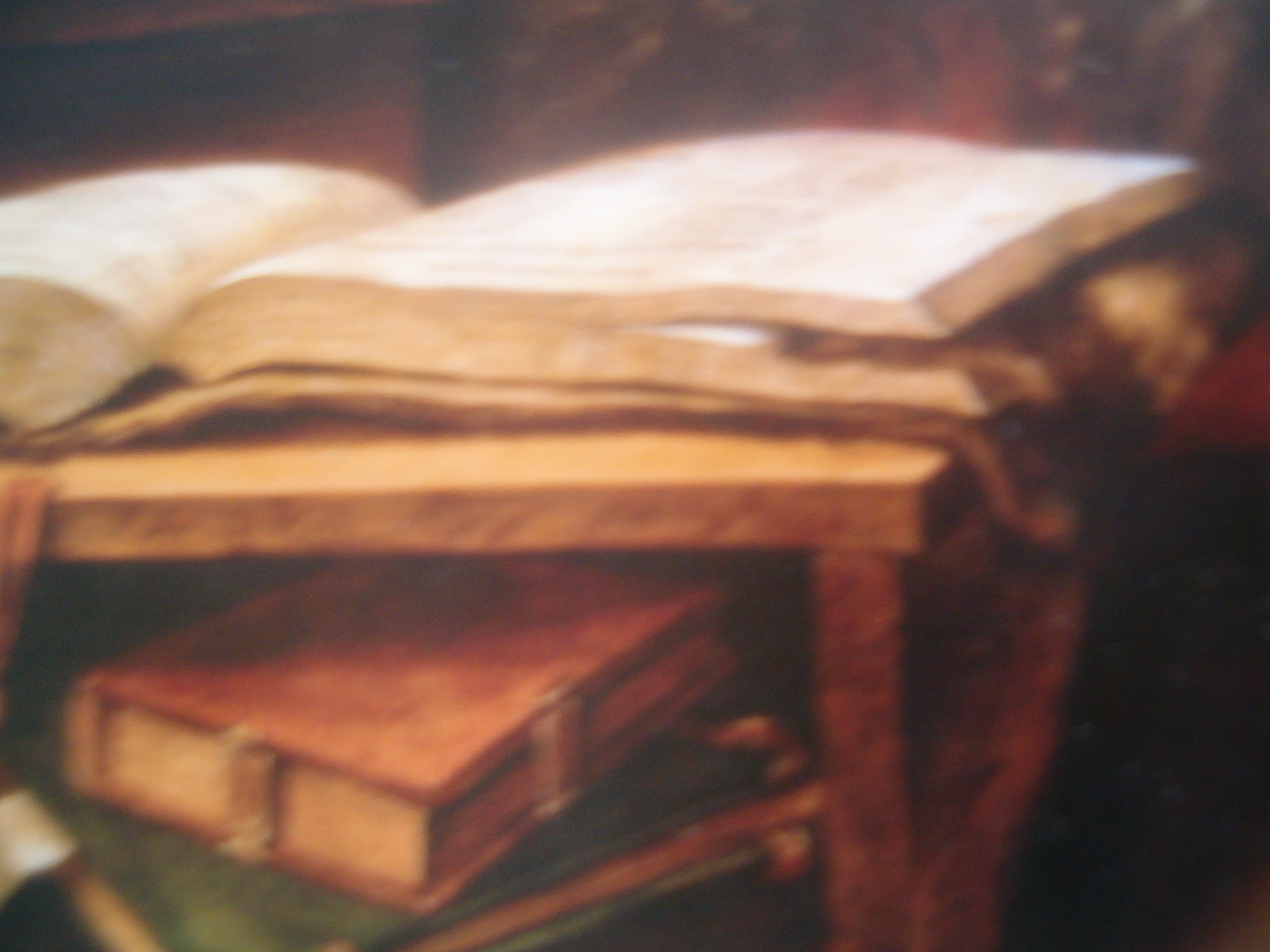 Detail of Saint Jerome in his Study from Albrecht Dürer.